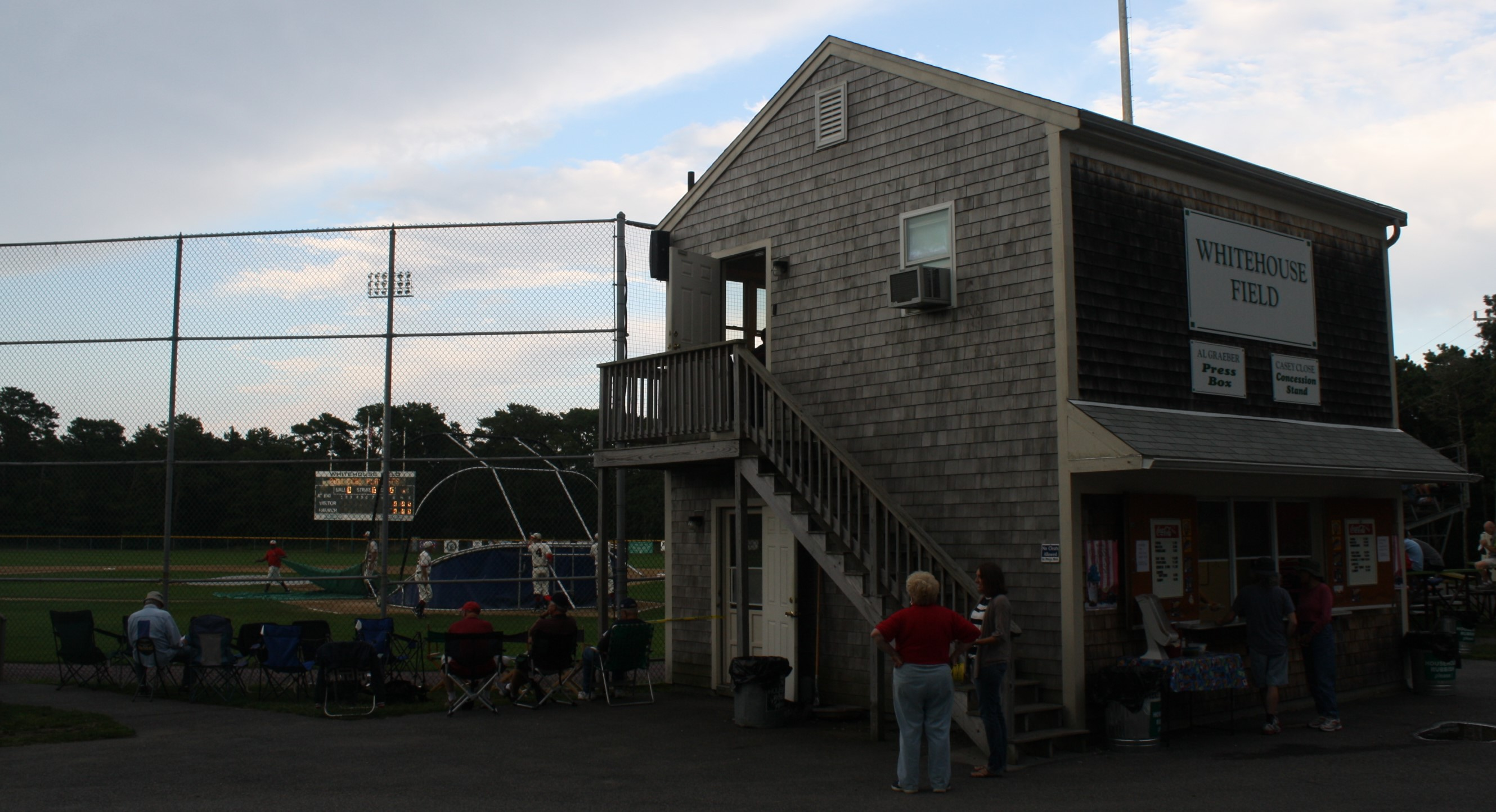 Fans at B.F.C. Whitehouse Field, Harwich, Massachusetts, 2011